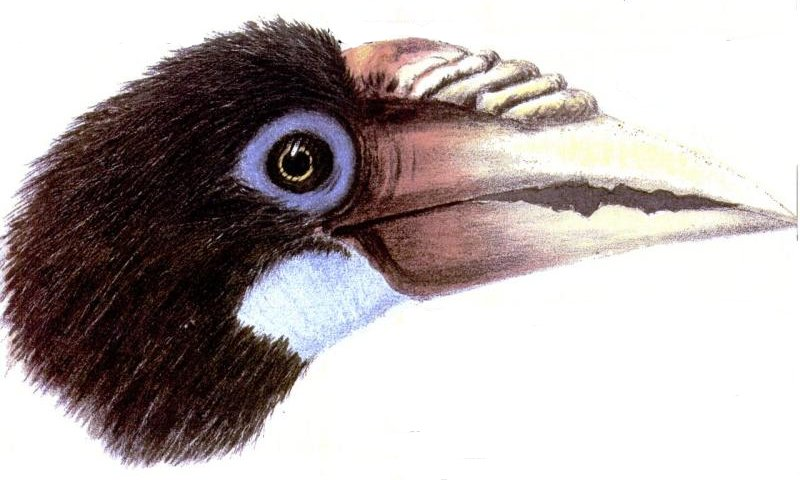 Painting of Narcondam Hornbill head by Chaplain C.L. Cory 1901